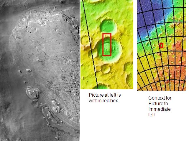 Spallanzani with context images. The location is 57.8 degrees south latitude and 274 degrees west longitude. Image was taken with the Mars Odyssey's THEMIS.